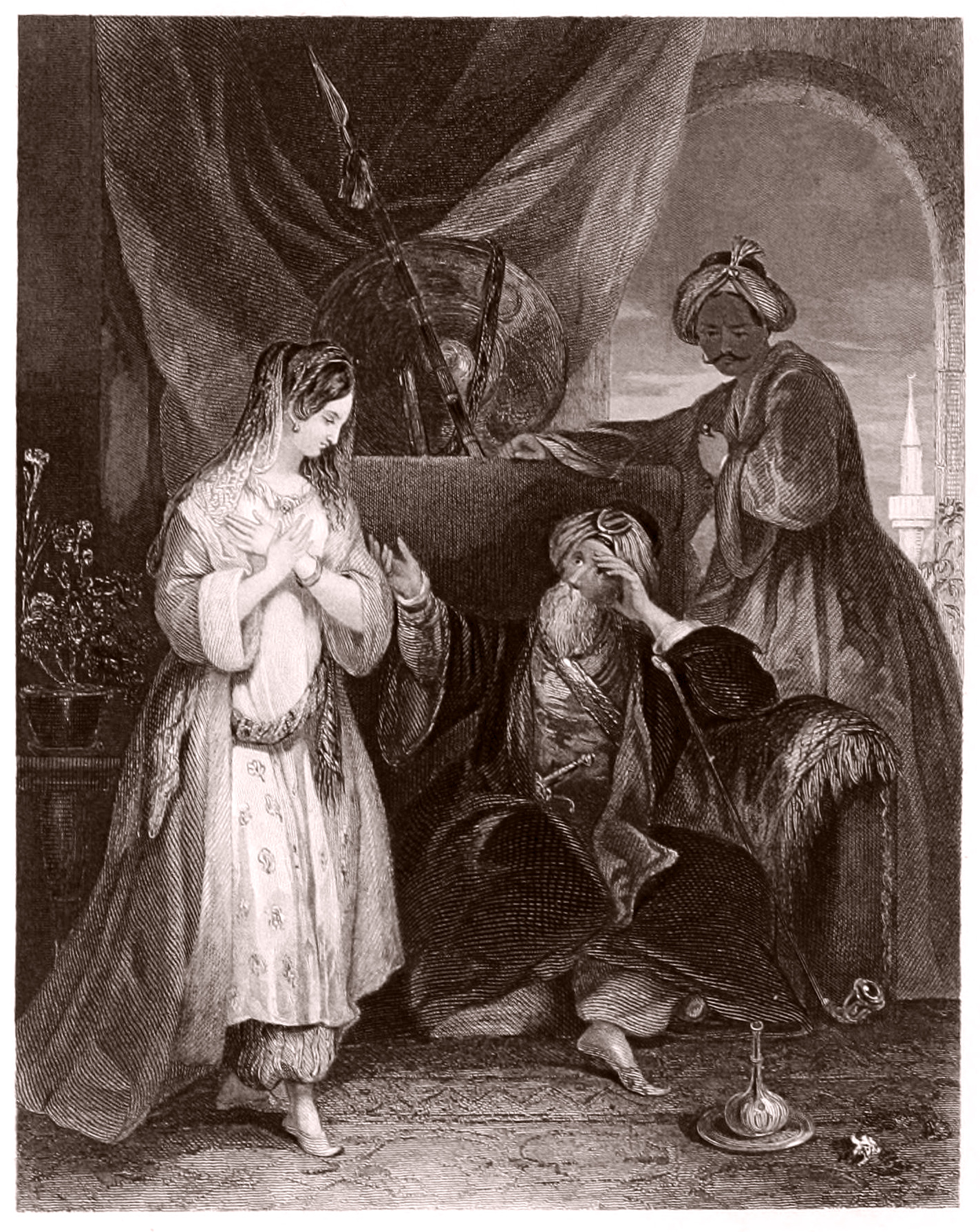 Zuleika Before Giaffir, illustrating a scene from Byron’s poem